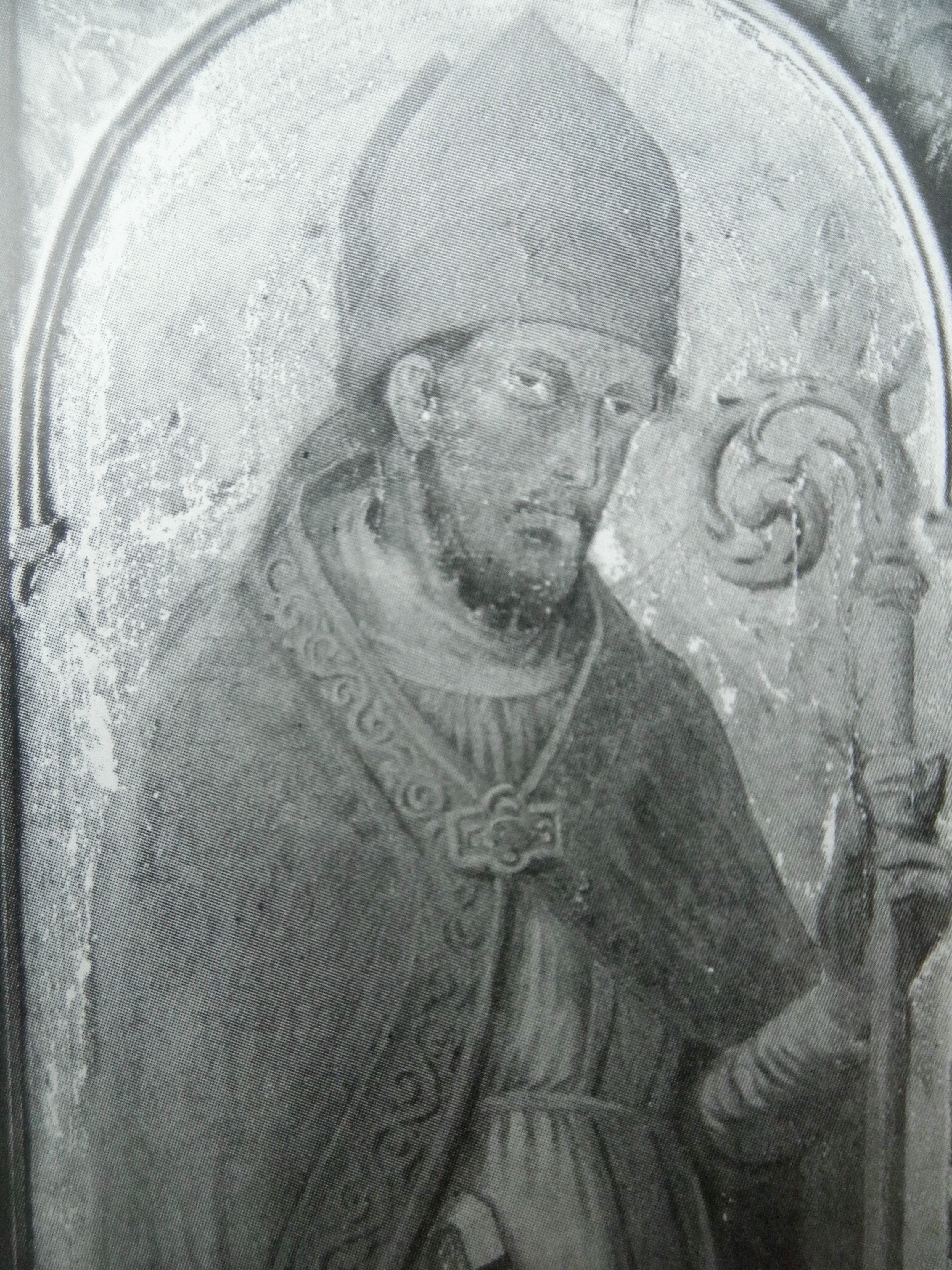 bartolo 1397